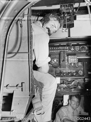 AWM Caption: IN FLIGHT FROM MOROTAI ISLAND, HALMAHERA ISLANDS, NETHERLANDS EAST INDIES. 1945-04-20. 412170 FLIGHT LIEUTENANT WALLY MILLS, OF PAPATOEOE, NZ, IS THE PILOT OF A CATALINA AIRCRAFT OF NO. 112 AIR SEA RESCUE FLIGHT RAAF TO WHOM SEVERAL FLYERS OF THE FIRST TACTICAL AIR FORCE (RAAF) OWE THEIR LIVES. HE HAS PERFORMED SOME SPECTACULAR AIR-SEA RESCUES. HE LETS "GEORGE" FLY HIS "CAT" WHILE HE TURNS FROM THE CONTROLS TO LOOK AT THE CAMERAMAN DURING AN OPERATIONAL FLIGHT.